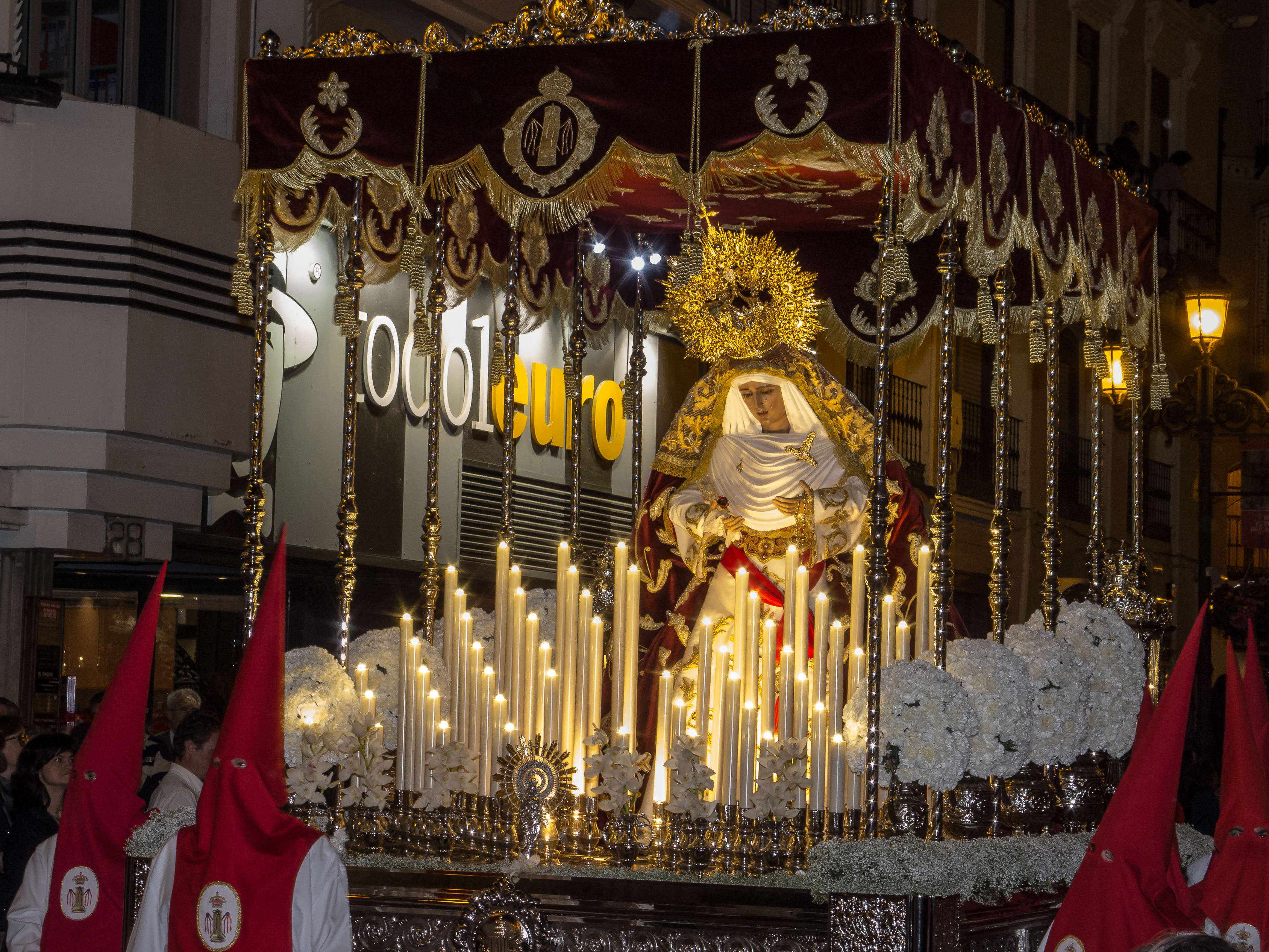 OLYMPUS DIGITAL CAMERA This is a photography of a Folklore festival in Spain (Wikidata id Q9075892).